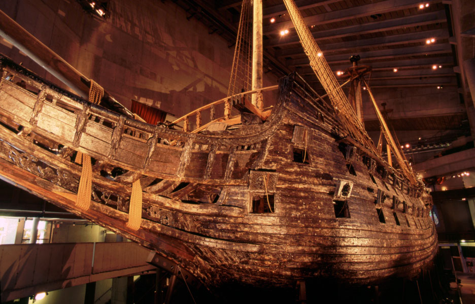 The Wasa from the bow, May 2004